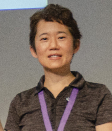 ISMBECCB 2019 2019 ISCB Fellows Thomas Lengauer and Bonnie Berger welcome the new Fellows. Marie-France Sagot and Xiaole Shirley Liu Absent: Vineet Bafna and Eleazar Eskin